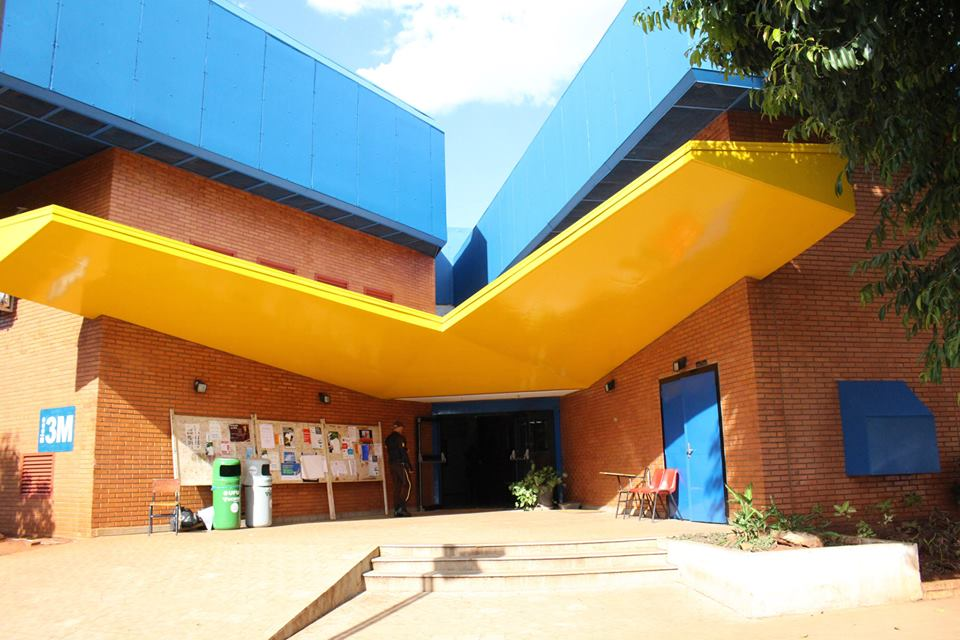 Bloco 3M - UFU